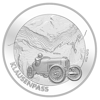 20 Fr. silver coin commemorating Klausen pass